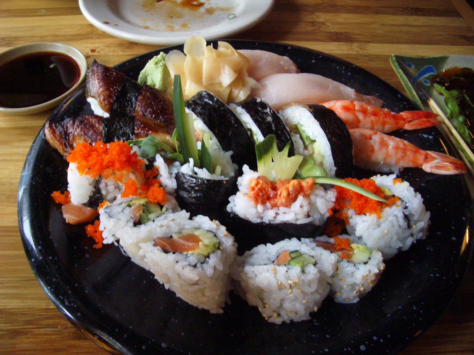 Sushi and Maki Feast, at Ohana in Belltown (Seattle)